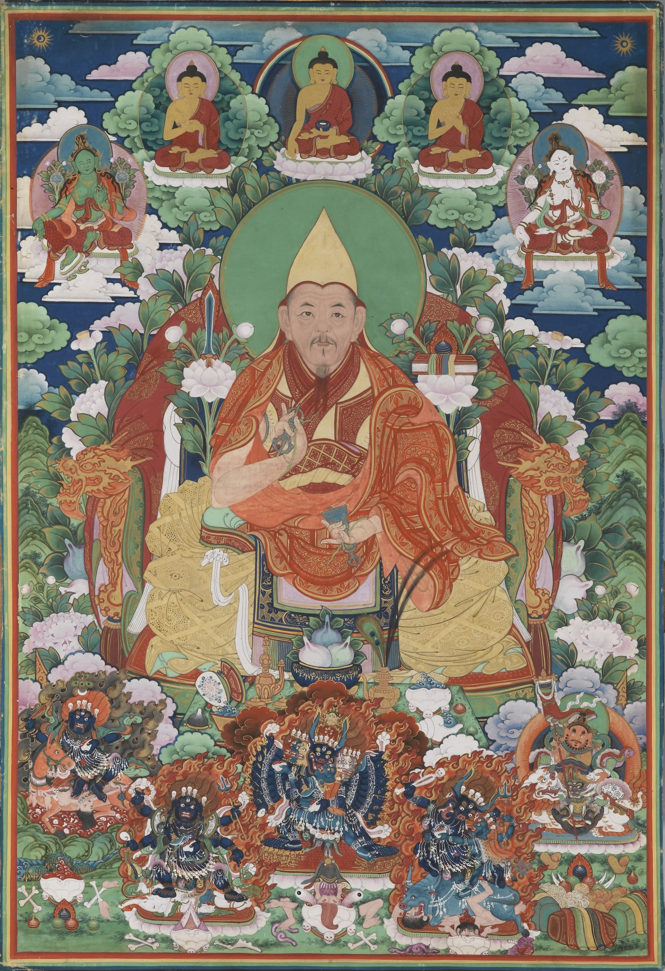 Tangka impérial de Changkya Hutuktu Rolpai Dorje (1717-1786) CHINE, DYNASTIE QING, ÉPOQUE QIANLONG (1736-1795)